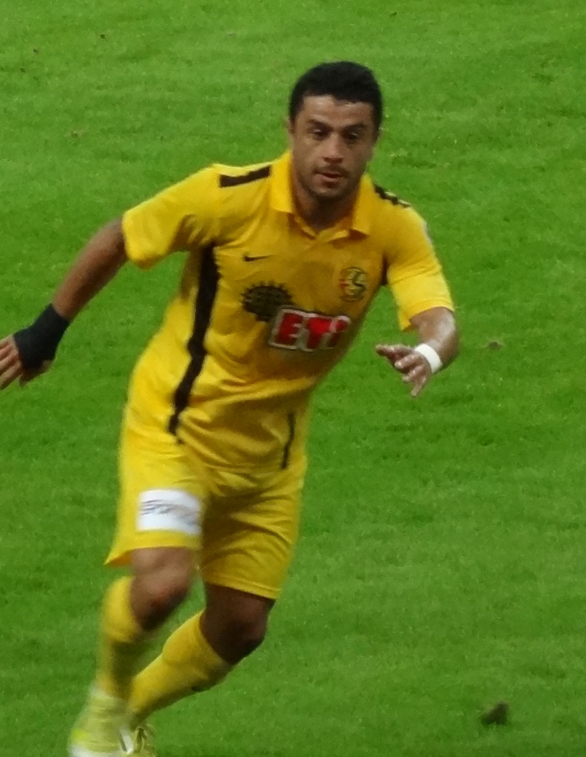 Rodrigo Tello